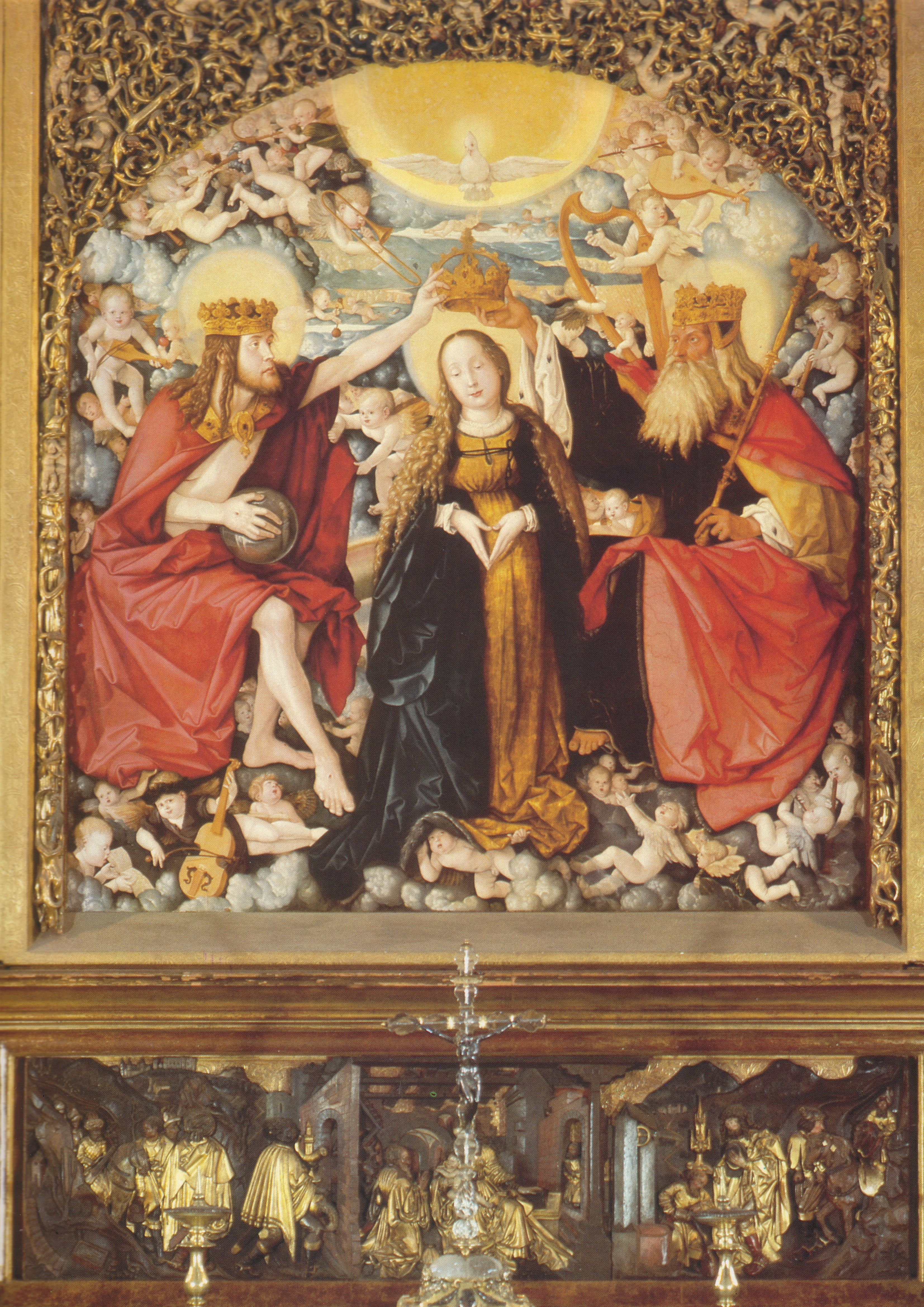 High Altar Freiburg Minster